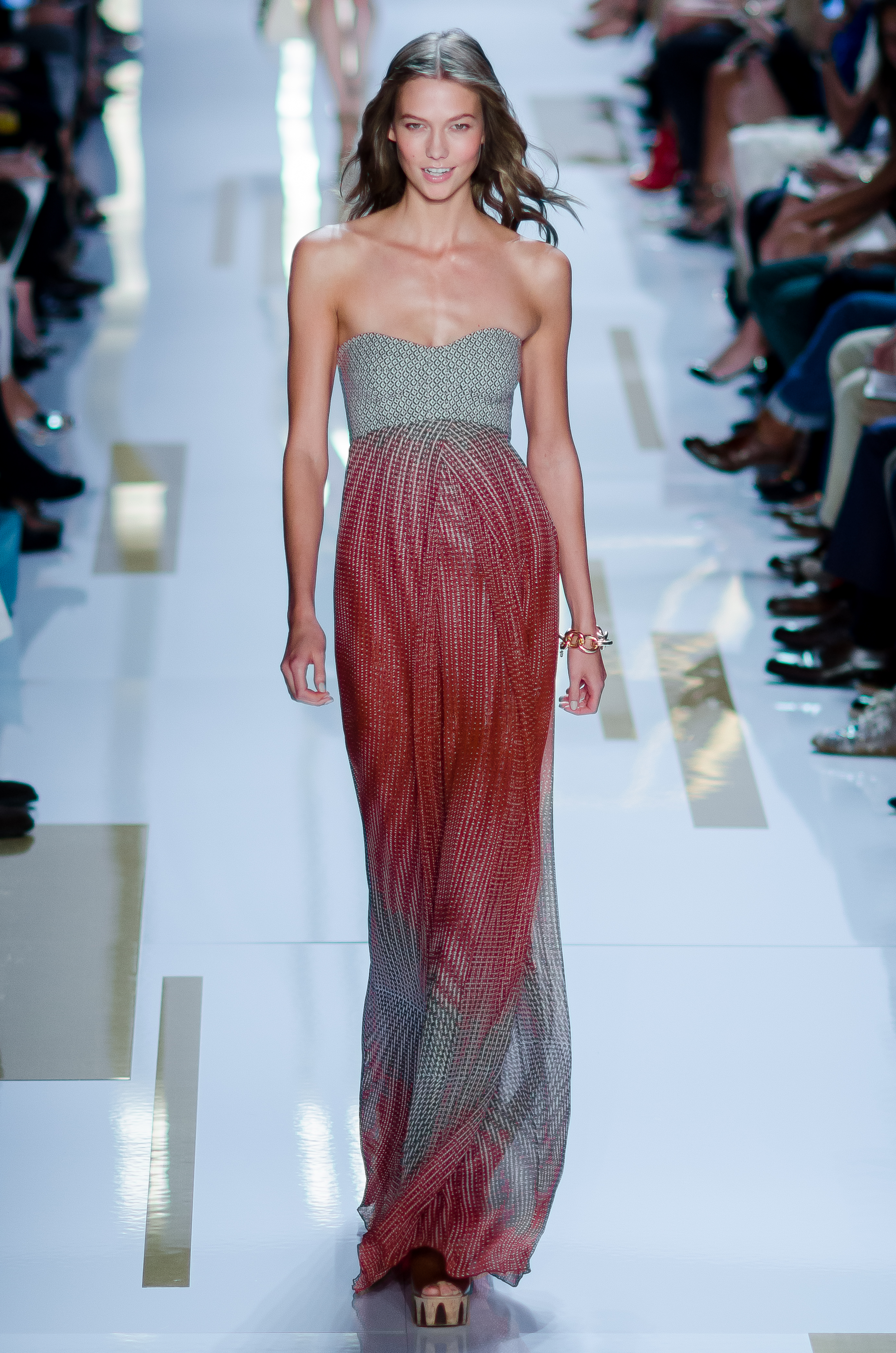 Karlie Kloss walks the runway at the Diane von Fürstenberg Spring/Summer 2014 show at New York Fashion Week, September 2013.